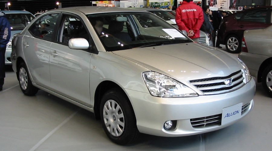 1st Toyota_Allion(2001) photographed in the all toyota Motor Show in Saitama, Japan